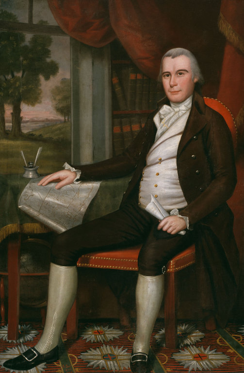 Noah Smith by Ralph Earl (1751-1801). This image is from the Art Institute of Chicago [1].